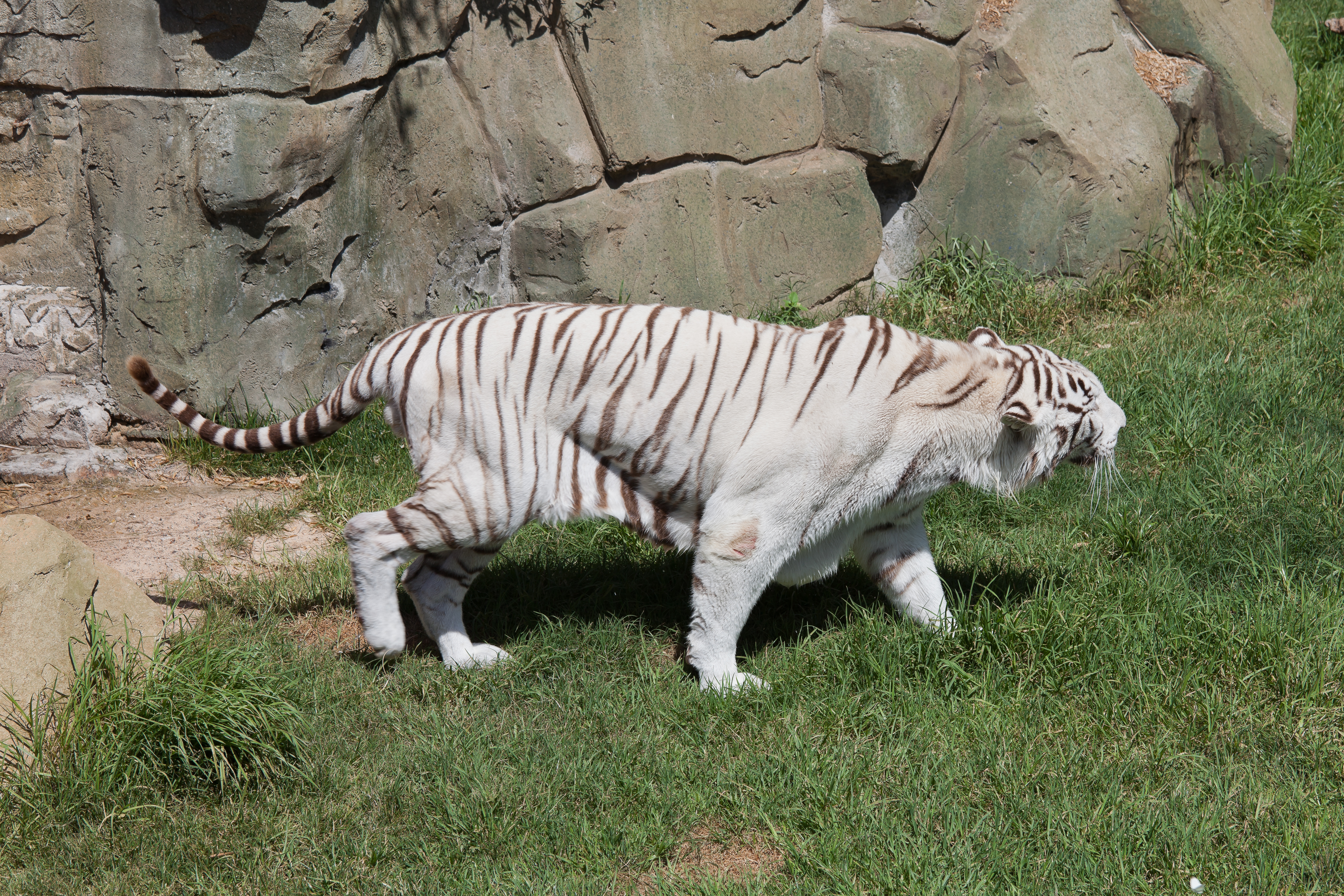 Panthera tigris tigris, Rancho Texas Park, Lanzarote, the Canary Islands, Spain